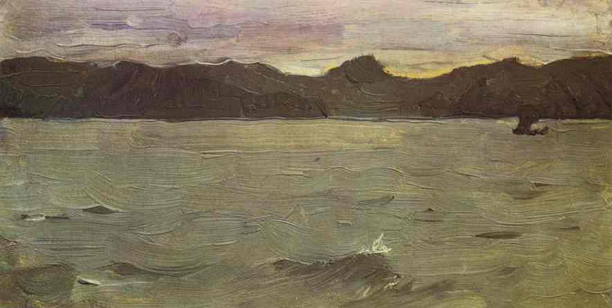 The White Sea. 1894. Oil on cardboard. The Tretyakov Gallery, Moscow, Russia.